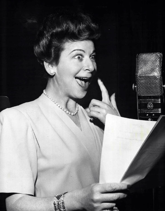 Photo of Fanny Brice on the air with her radio show.